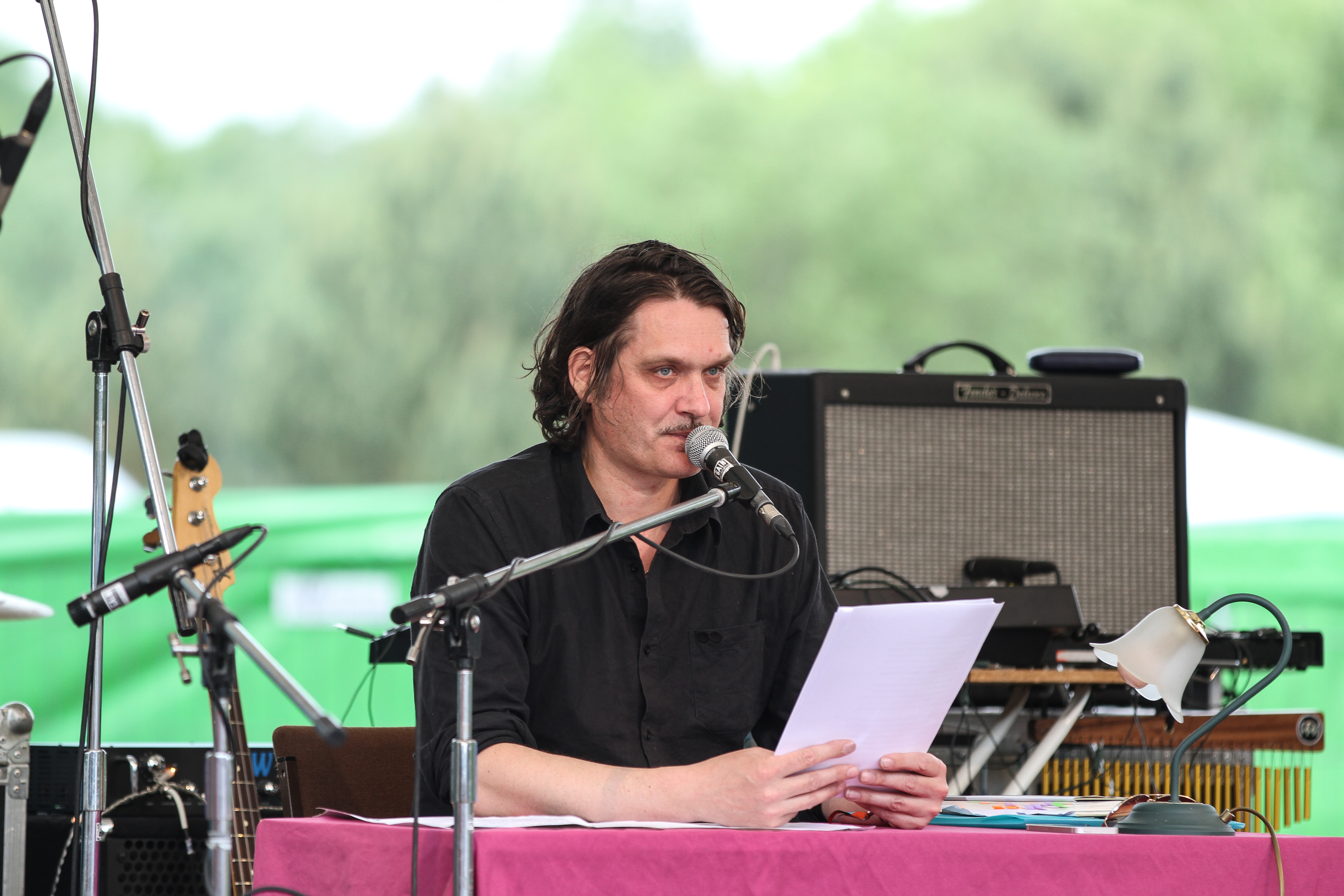 Festivalsommer This photo was created with the support of donations to Wikimedia Deutschland in the context of the CPB project "Festival Summer".